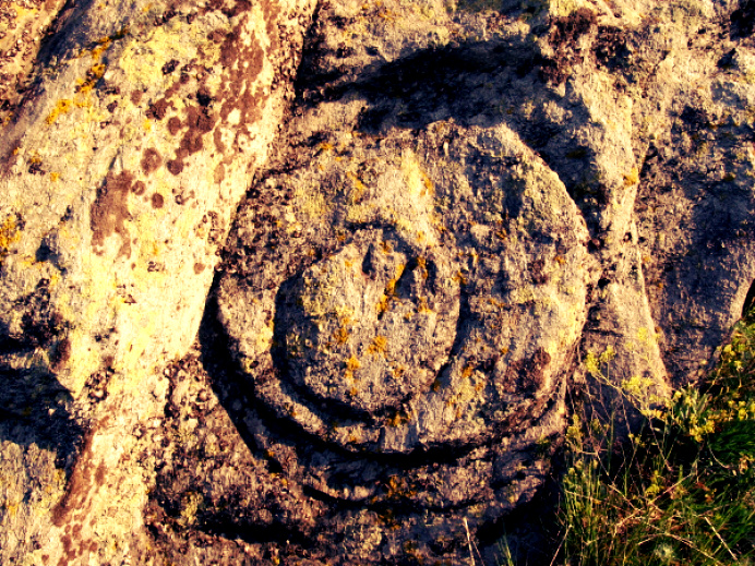 Paleokastro shrine2 BG